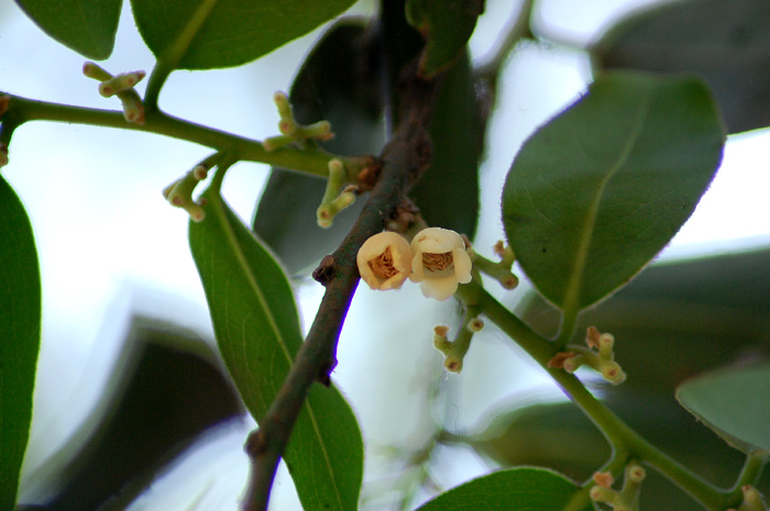 Male flowers of Diospyros malabarica from Ebenaceae. Rarely seen in cultivation.